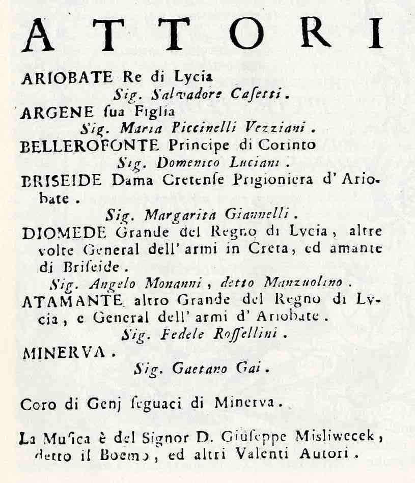 Poster with the cast of Il Bellerofonte from 18th century.